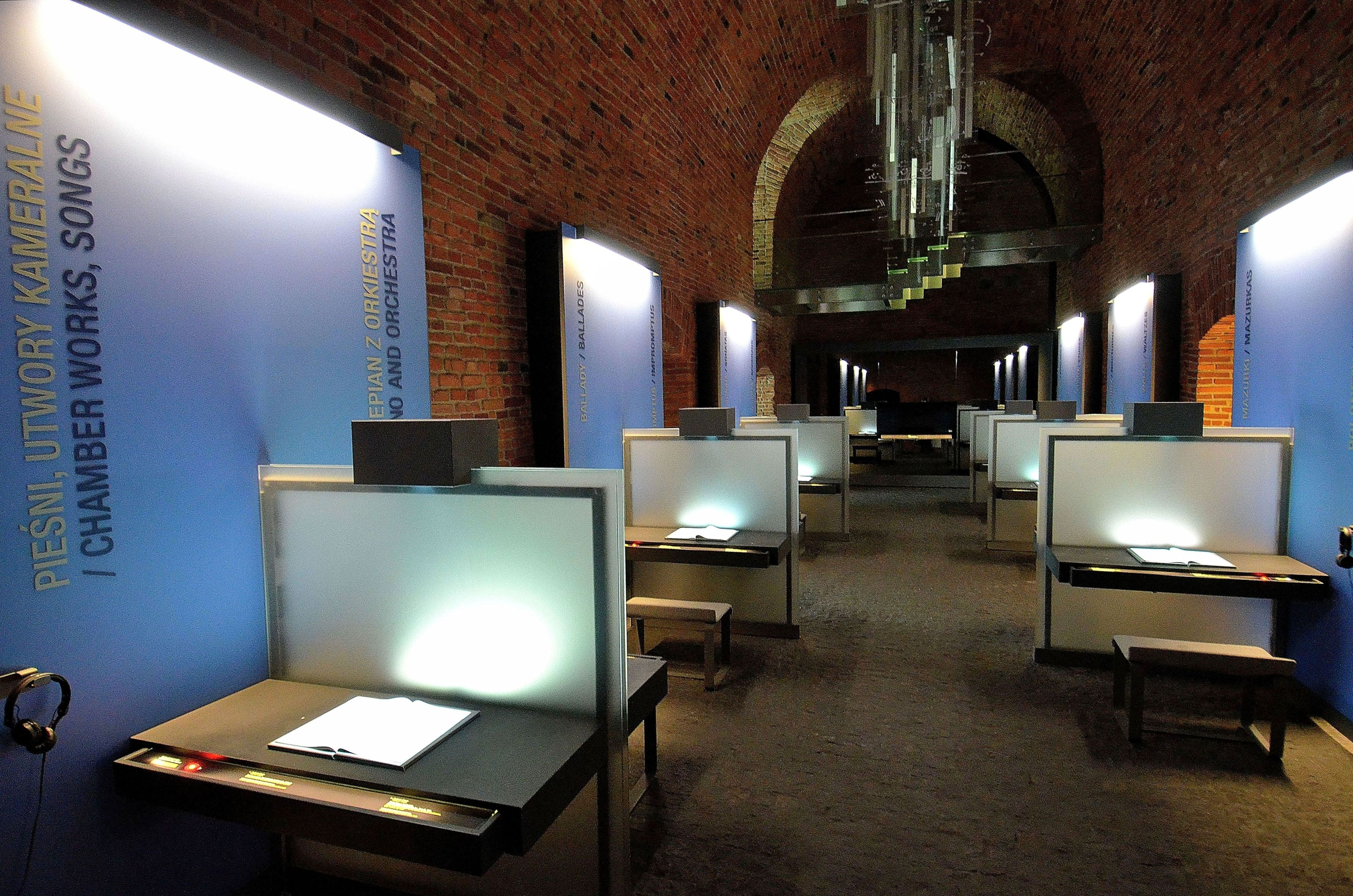 Frederick Chopin Museum in Warsaw